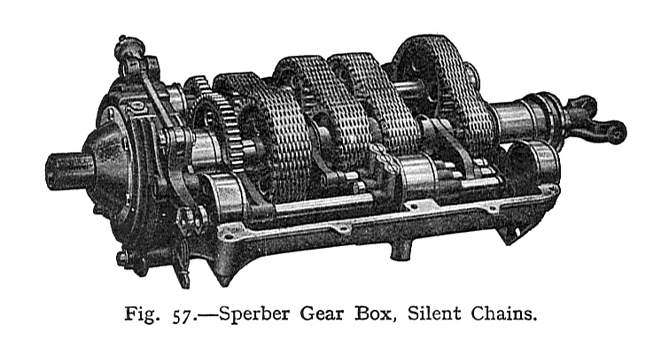 Fig. 57 Sperber gear box, silent chains Gear box (transmission) of a Sperber car, using Renold's silent chain Scans from 'The Book of the Motor Car', Rankin Kennedy C.E., 1912 See other images from this source in Scans from 'The Book of the Motor Car'